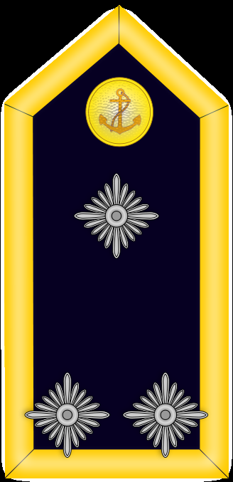 Military rank insignia, here shoulder strap of the «Stabsoberbootsmann» (comparable to OR-8, NATO) of the German Kriegsmarine in WW II.